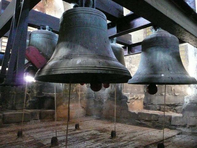 Bells in the tower of St Andrew's parish church, Clifton Campville, Staffordshire